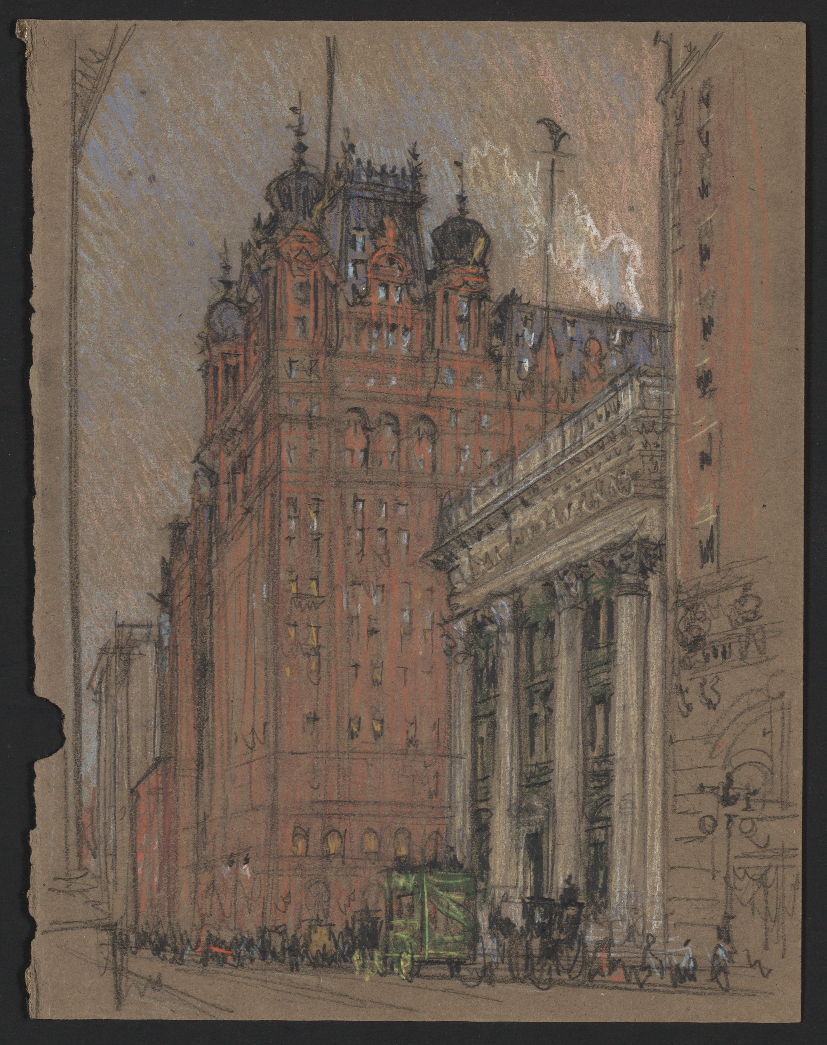 Waldorf Astoria Hotel, Thirty-Fourth Street and Fifth Avenue (original location). 1 drawing on brown paper : colored crayons over pencil sketch ; sheet 29.3 x 23.1 cm.